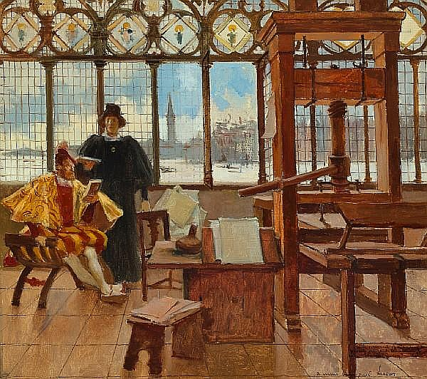 "Jean Grolier in the House of Aldus Manutius," Grolier sits.